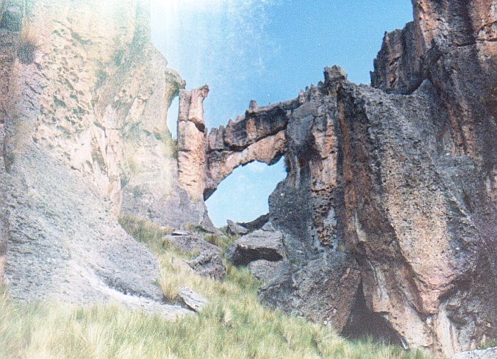 Rock Forest of Huayllay